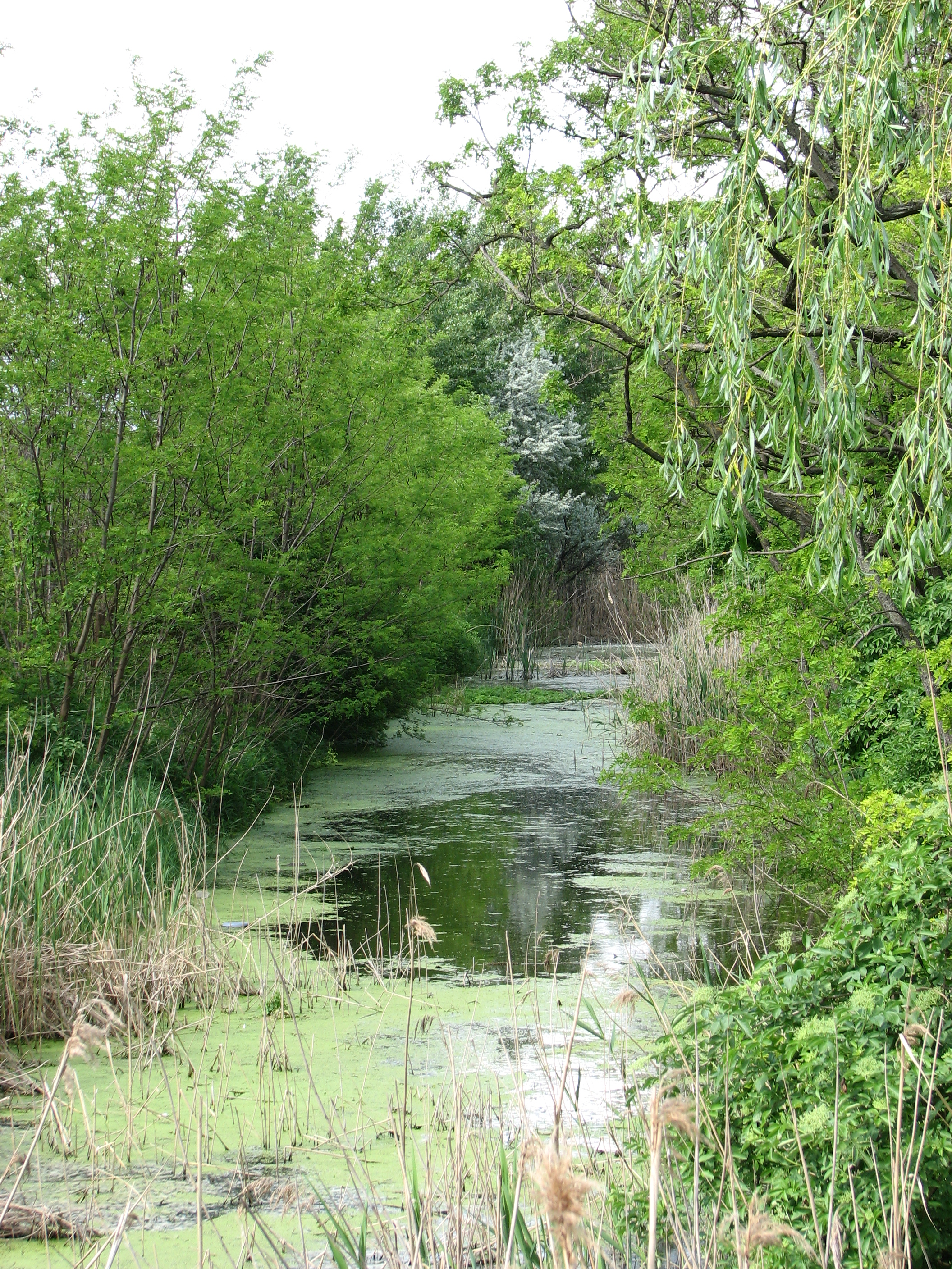 After the heavy rains of the spring the meadows around Hajdúdorog, Hungary can be easily turned to marshland.